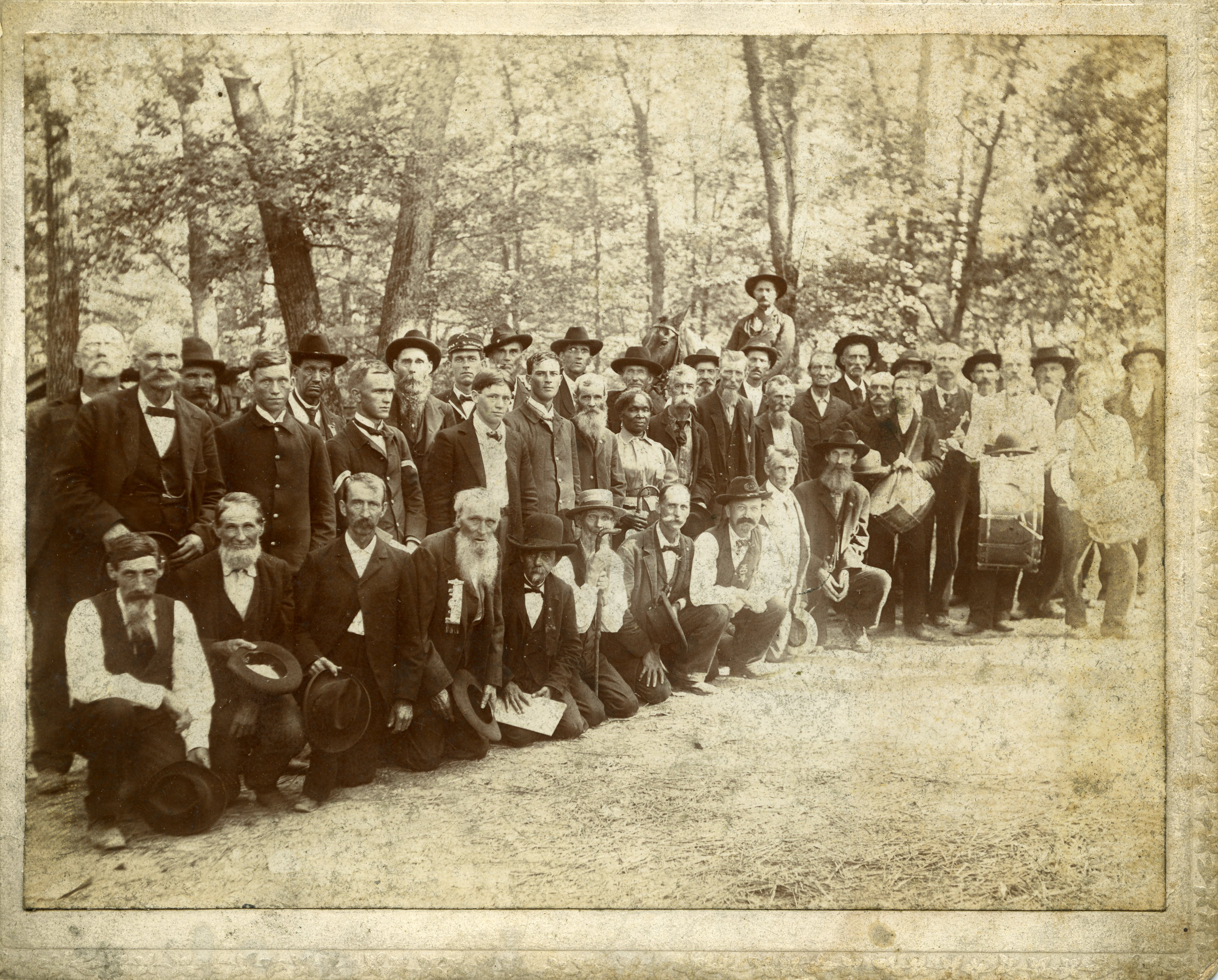 Photo from 1898, Indiana's 23rd Infantry at a reunion of the Grand Army of the Republic in Indianapolis, Indiana. Lucy Higgs Nichols stands in the center. Stuart B. Wrege History Room, New Albany - Floyd County Public Library